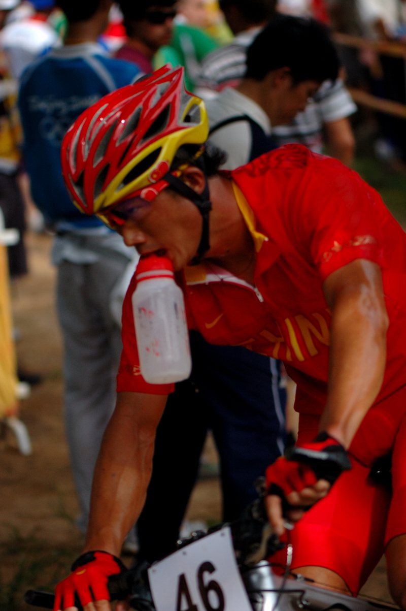 Cycling at the 2008 Summer Olympics – Men's cross-country - Jianhua Ji (China)